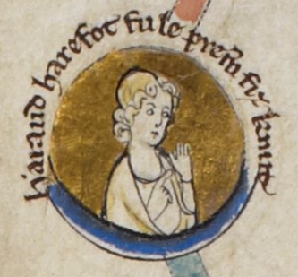 Harold Harefoot as a child